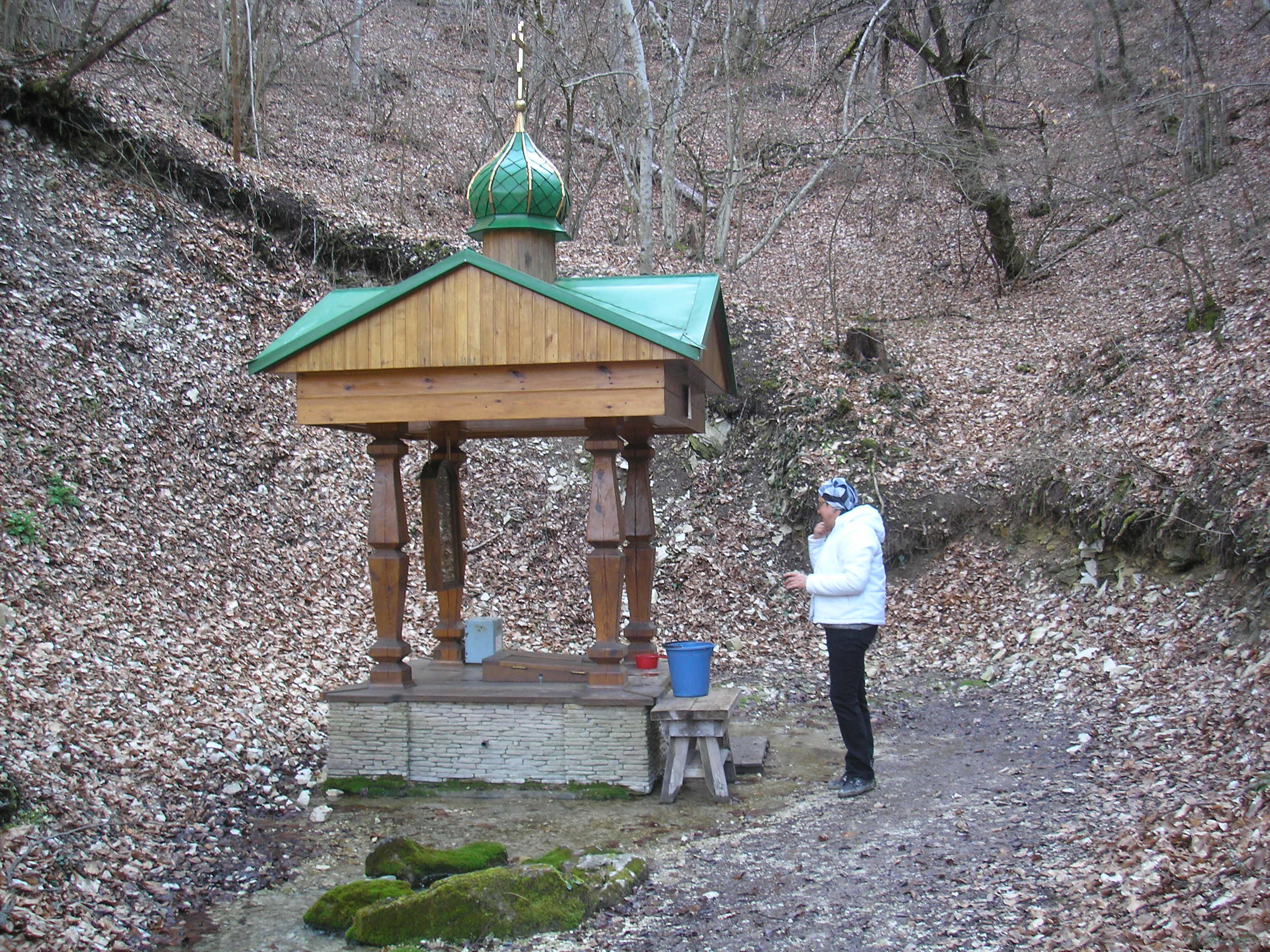 Source of Theodore the Studite, source of the river Aytodorka.